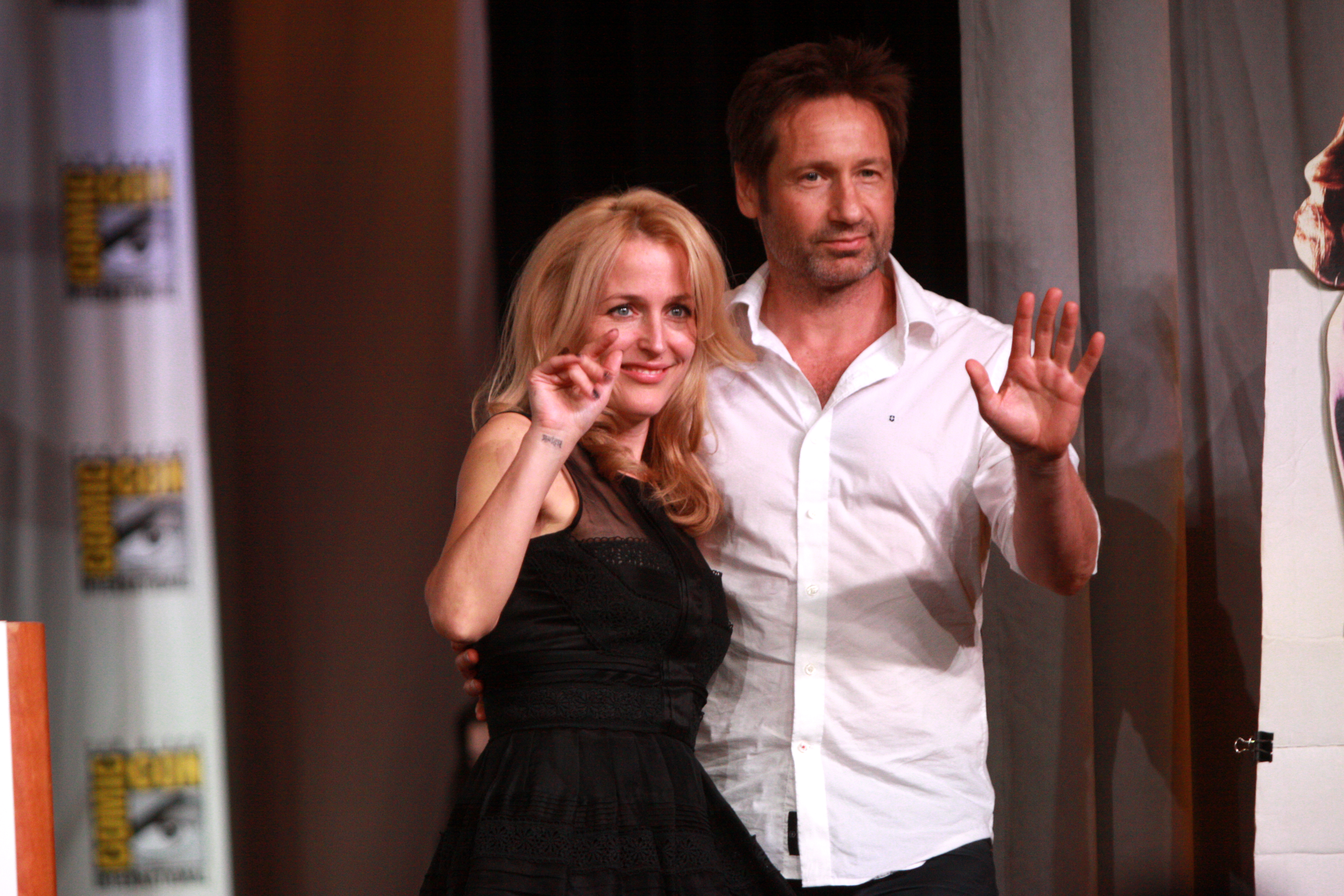 Gillian Anderson and David Duchovny speaking at the 2013 San Diego Comic Con International, for "The X-Files" 20th Anniversary panel, at the San Diego Convention Center in San Diego, California.